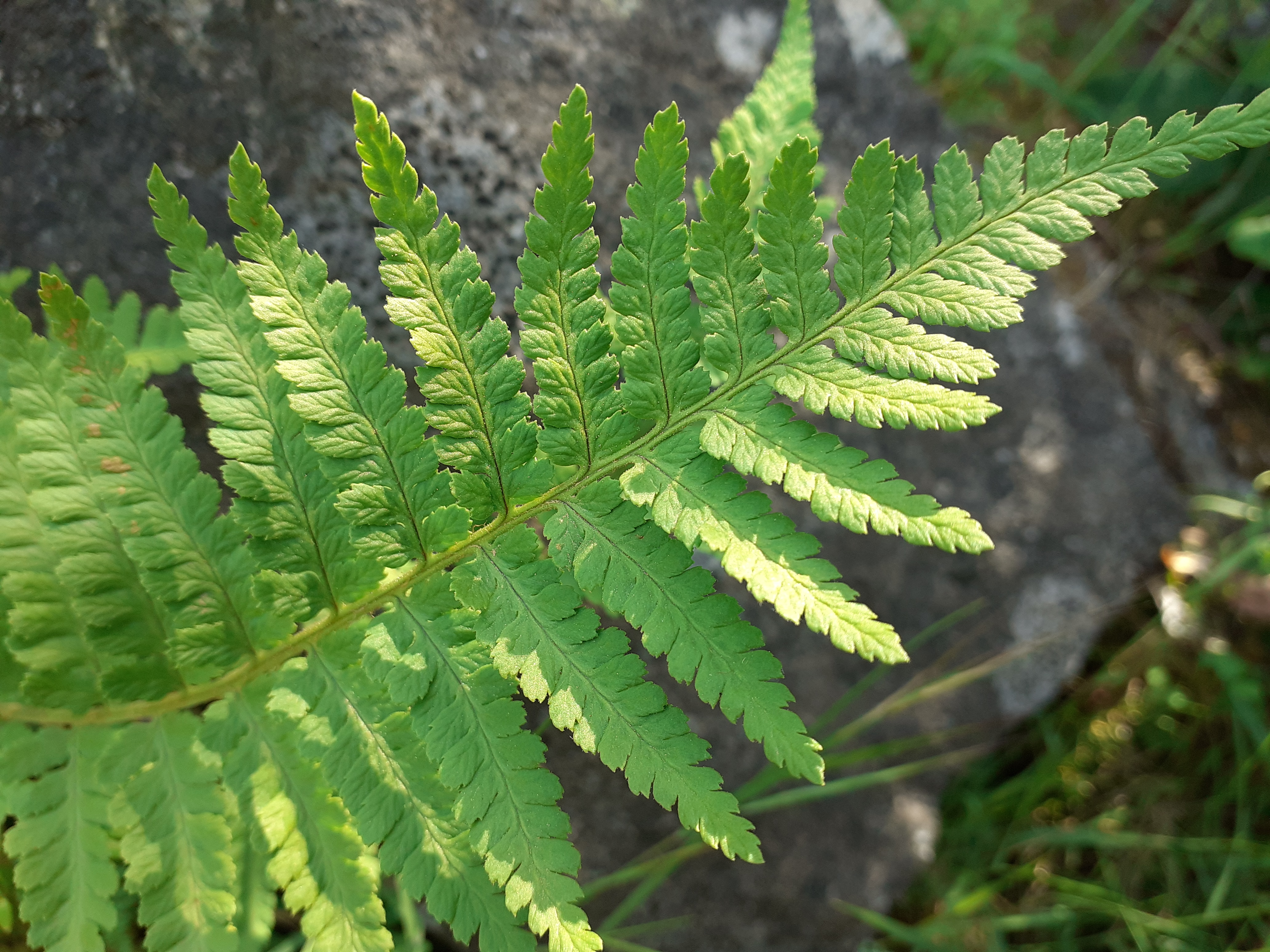 elba island